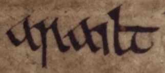 An excerpt from folio 17r of Oxford Bodleian Library MS Rawlinson B 503 (the Annals of Inisfallen). The excerpt concerns Aralt mac Sitriuc, King of Limerick (died 940) and reads: "Arailt".